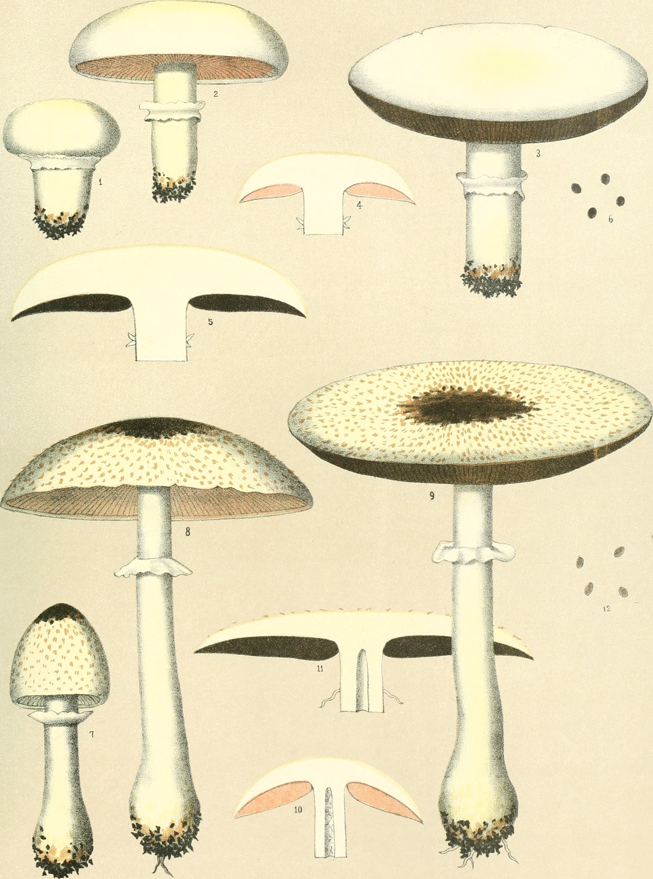 Title: Annual report of the State Botanist of the State of New York Identifier: annualreportofst1894peck Year: 1889-1897. (1880s) Authors: Peck, Charles H. (Charles Horton), 1833-1917; New York (State). State Botanist Subjects: Plants; Fungi Publisher: Albany : Troy Press Text Appearing Before Image: EDIBLE FUNGI. Text Appearing After Image: Fioe. 1 TO 6 ACARICUS RODMANI Peck RODMAN'S MUSHROOM Fios. 7 TO 12 ACARICUS PLACOMYCES peck FIAT-CAP MUSHROOM